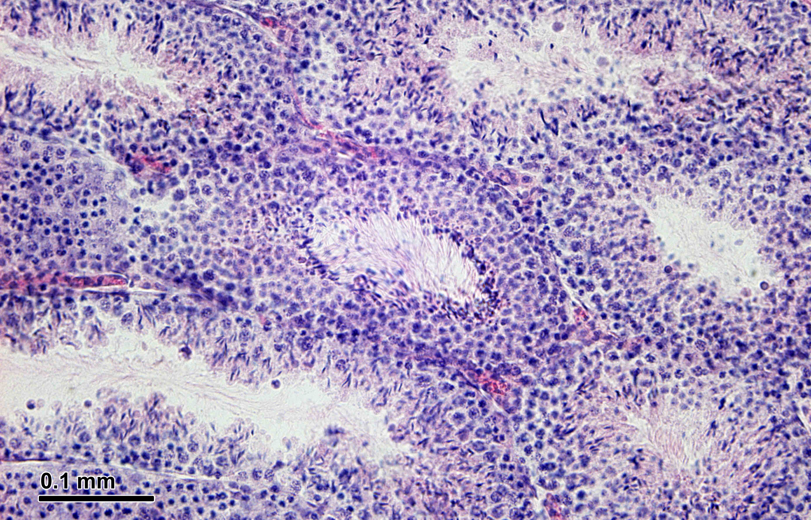 Testicles: Testicles cross-section (mouse). Optical microscopy technique: Bright field. Magnification: 360x (for picture width 26 cm ~ A4 format).